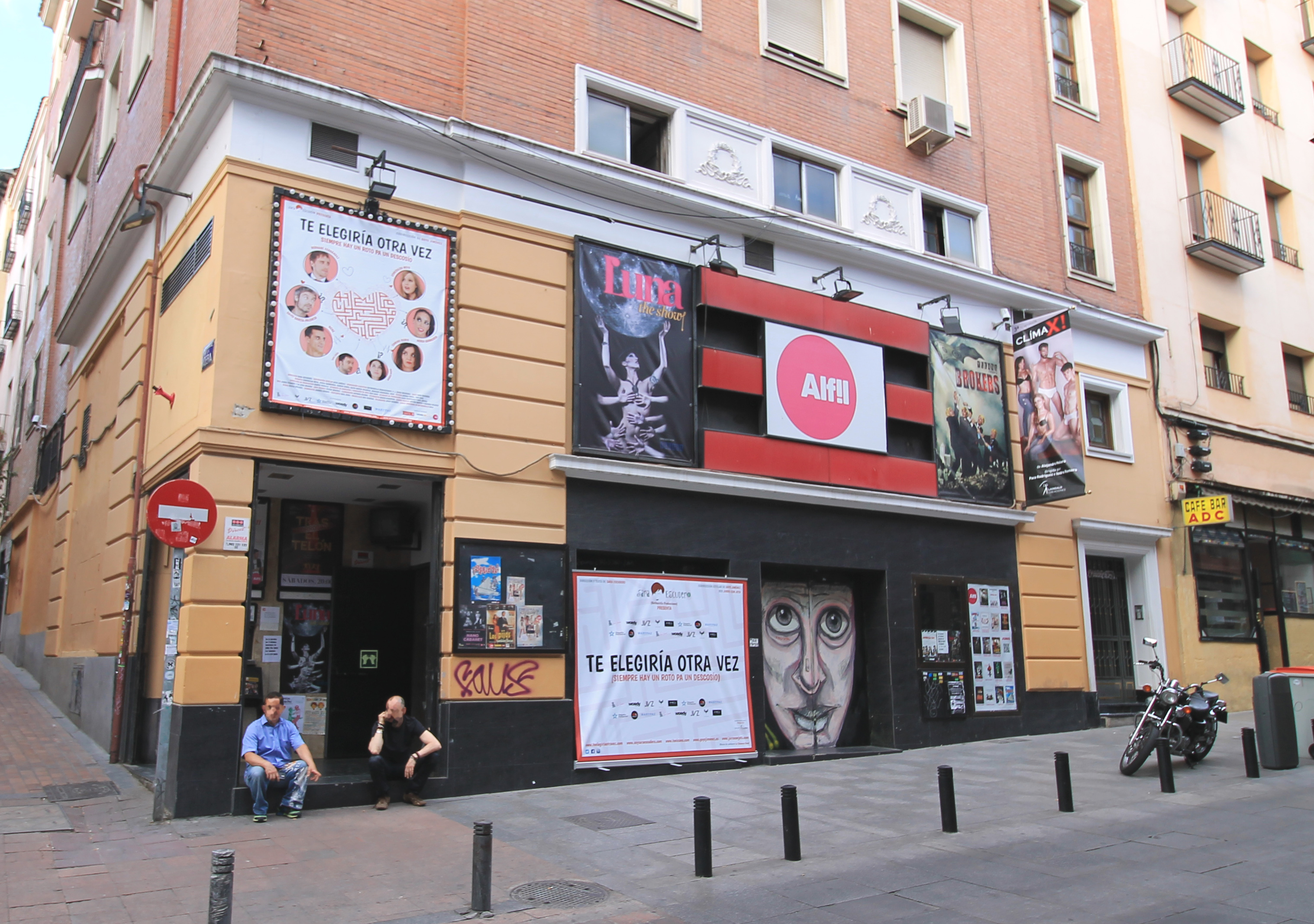 Façade of Teatro Alfil (a theater) in Madrid (Spain).